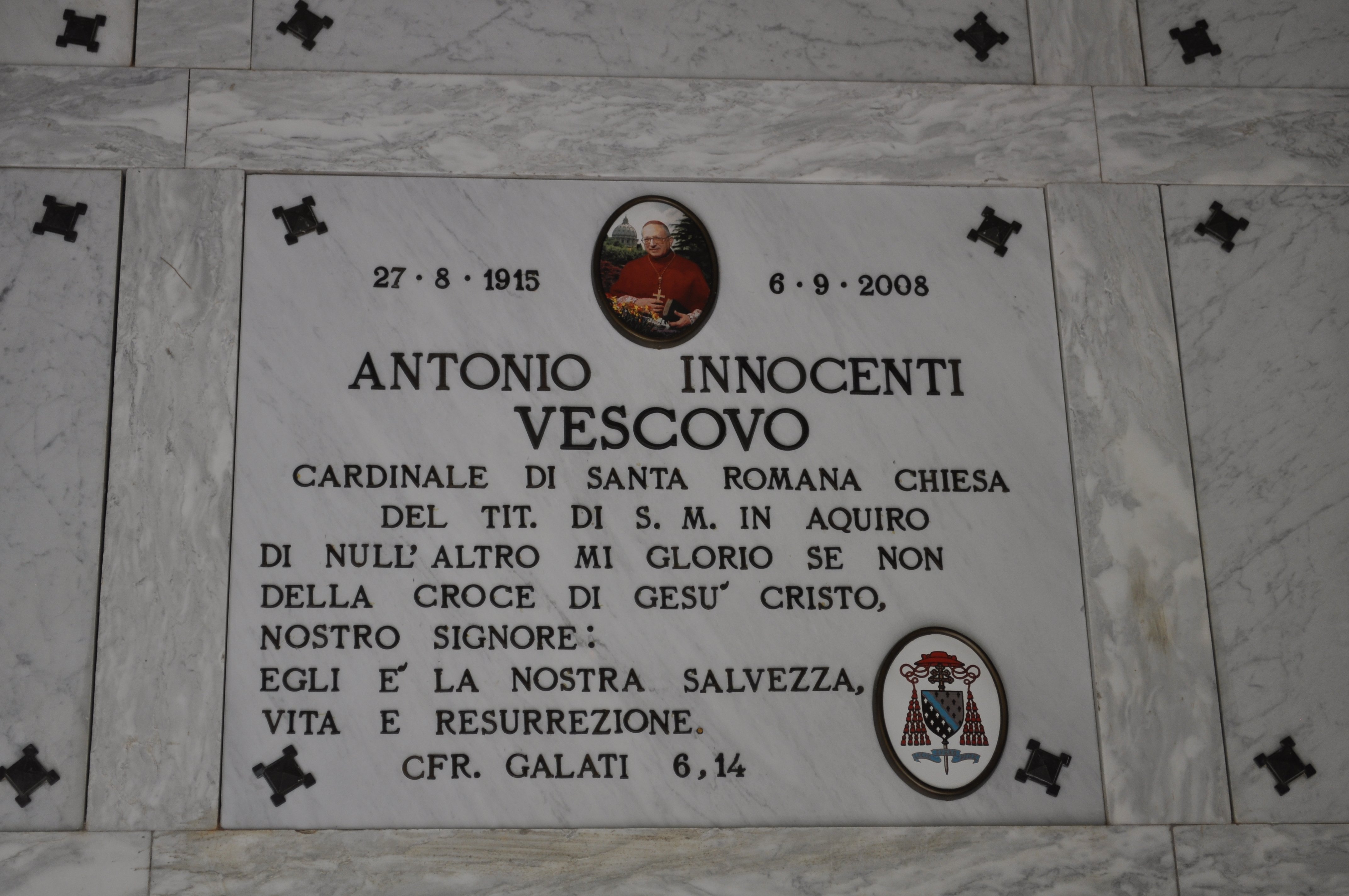 Grave of Italian cardinal Antonio Innocenti (1915-2008) in Tosi, Tuscany, Italy.